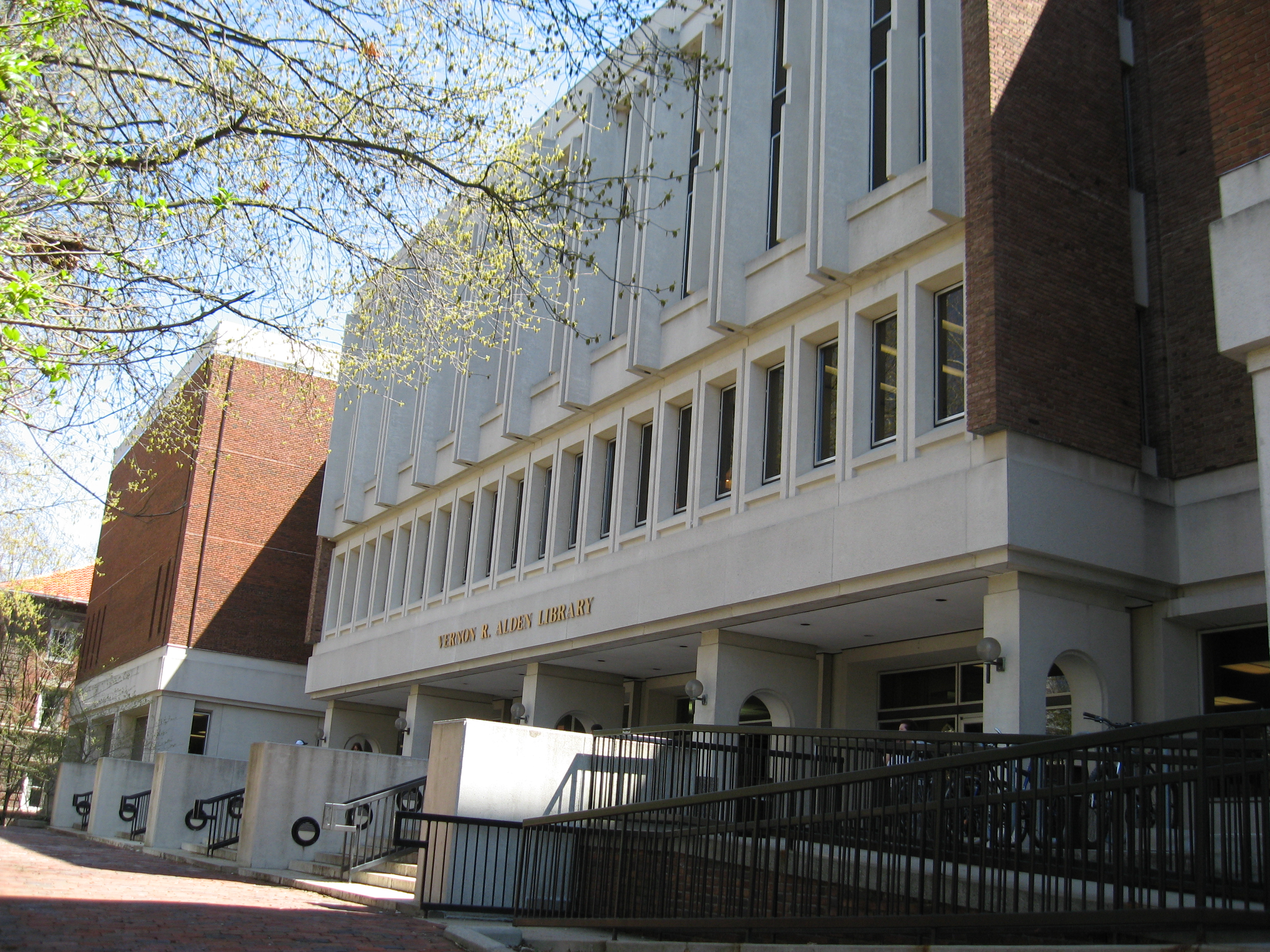 The exterior of the Vernon R. ALden Library at Ohio University (Athens, Ohio, USA)